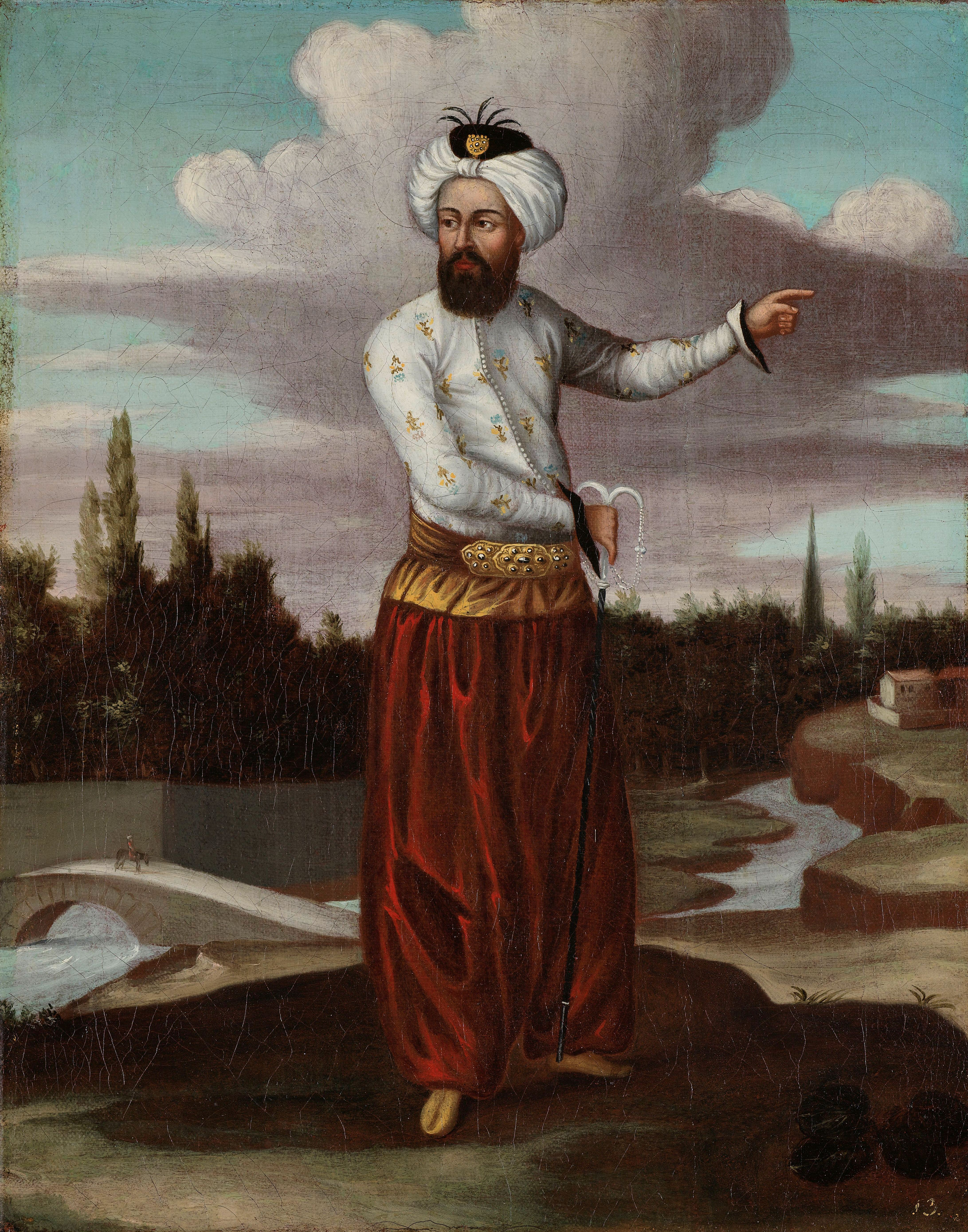 A chaous, a courier to the Sultan. Standing, at full-length, in a landscape. Part of the Vanmour series.